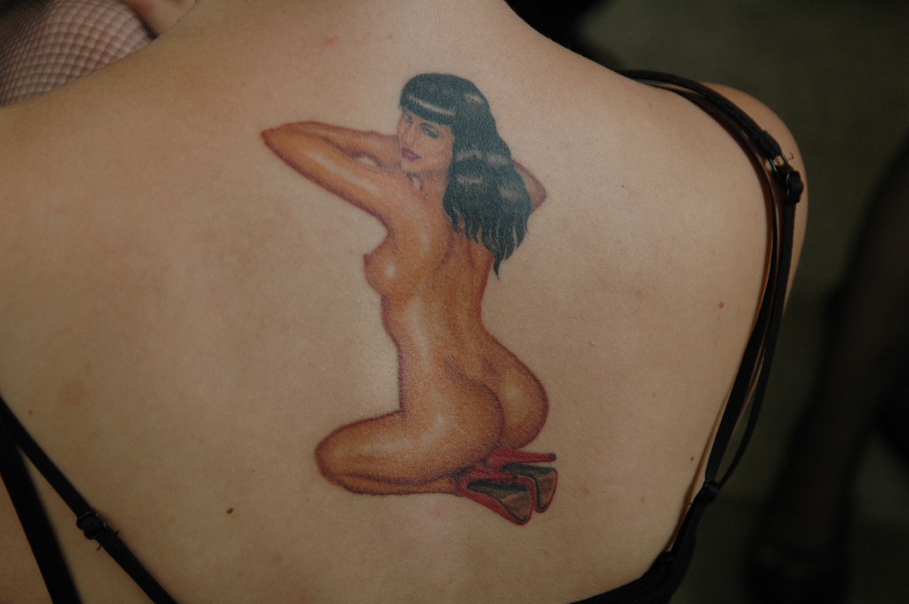 Kopie van DSC_6897 -- tattoo in style of Betty Page photos on woman's back